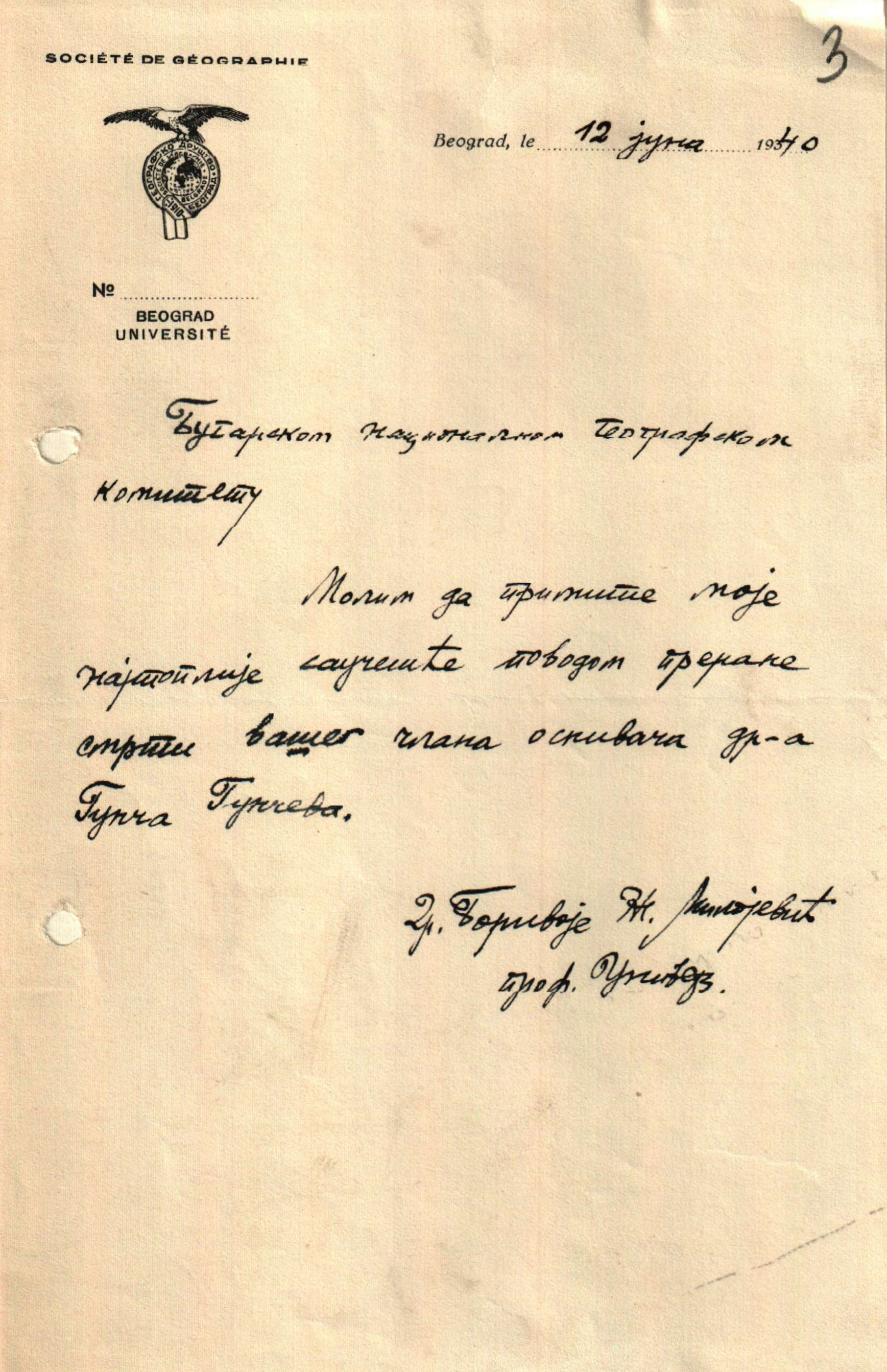 Letter from Serbian geography society to Bulgarian National Committee for Geography.